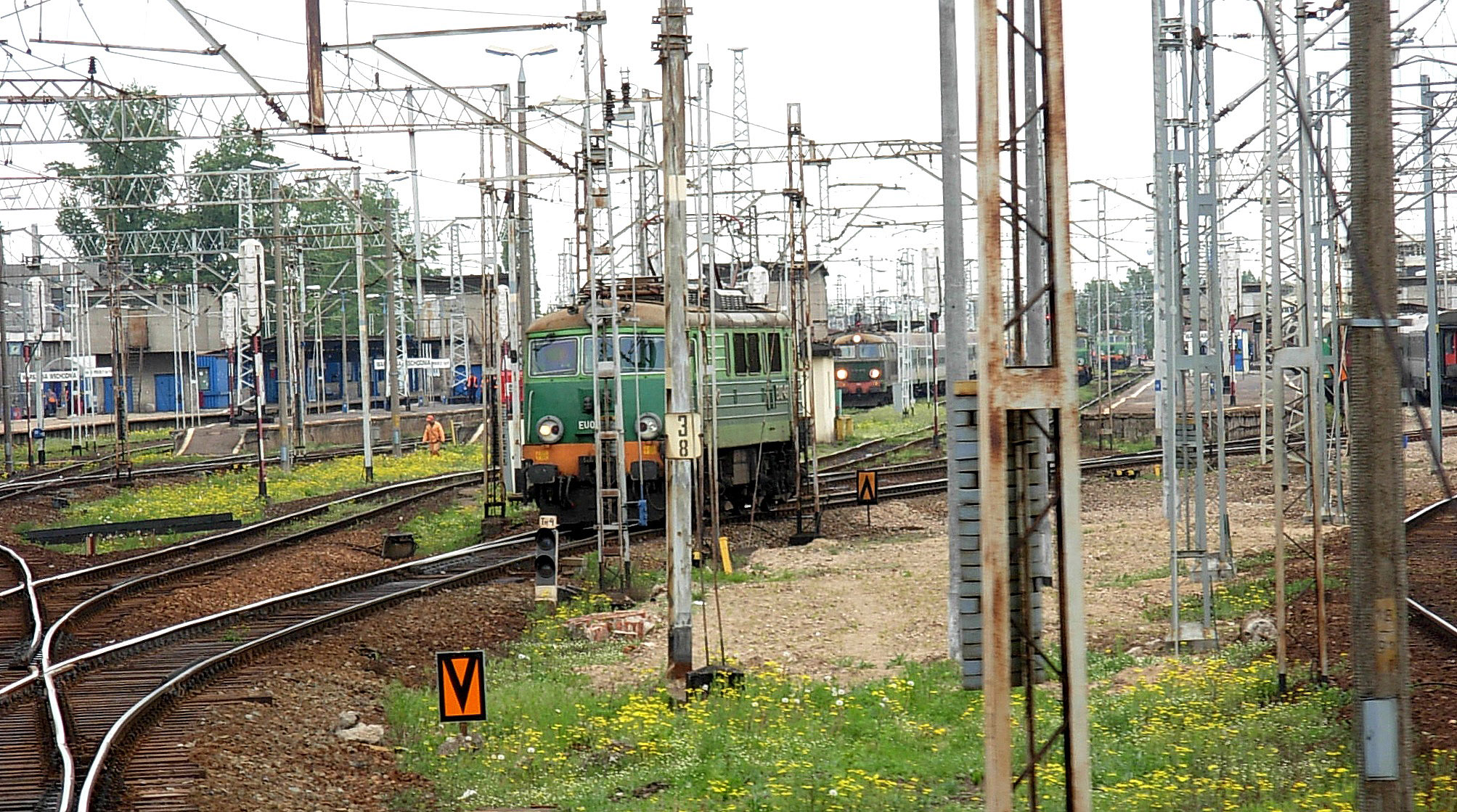 Warszawa Wschodnia railway station